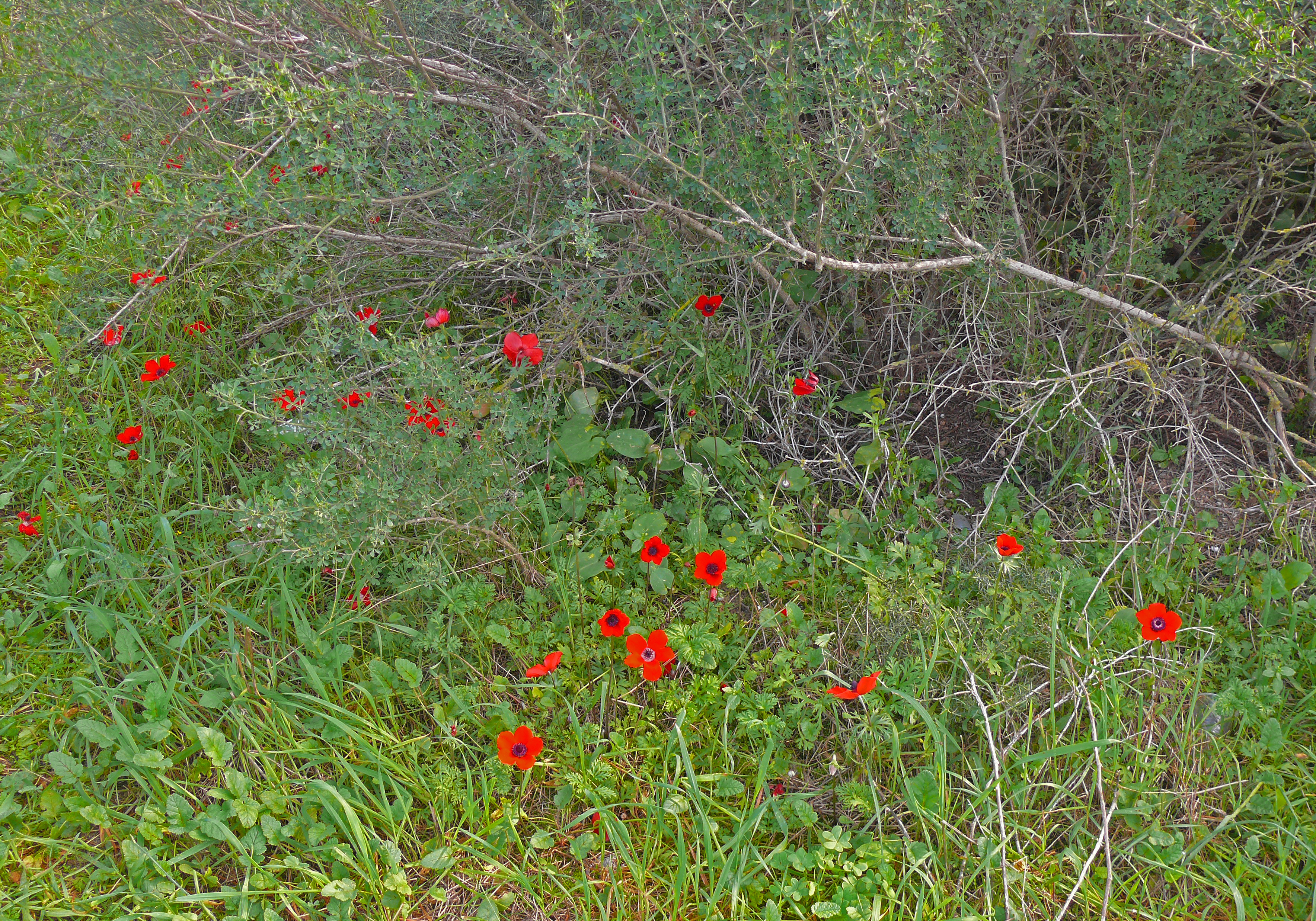 Anemone coronaria flowers in "Givat HaIrusim" (Iris Hill), Rishon LeZion and Ness Ziona, Israel